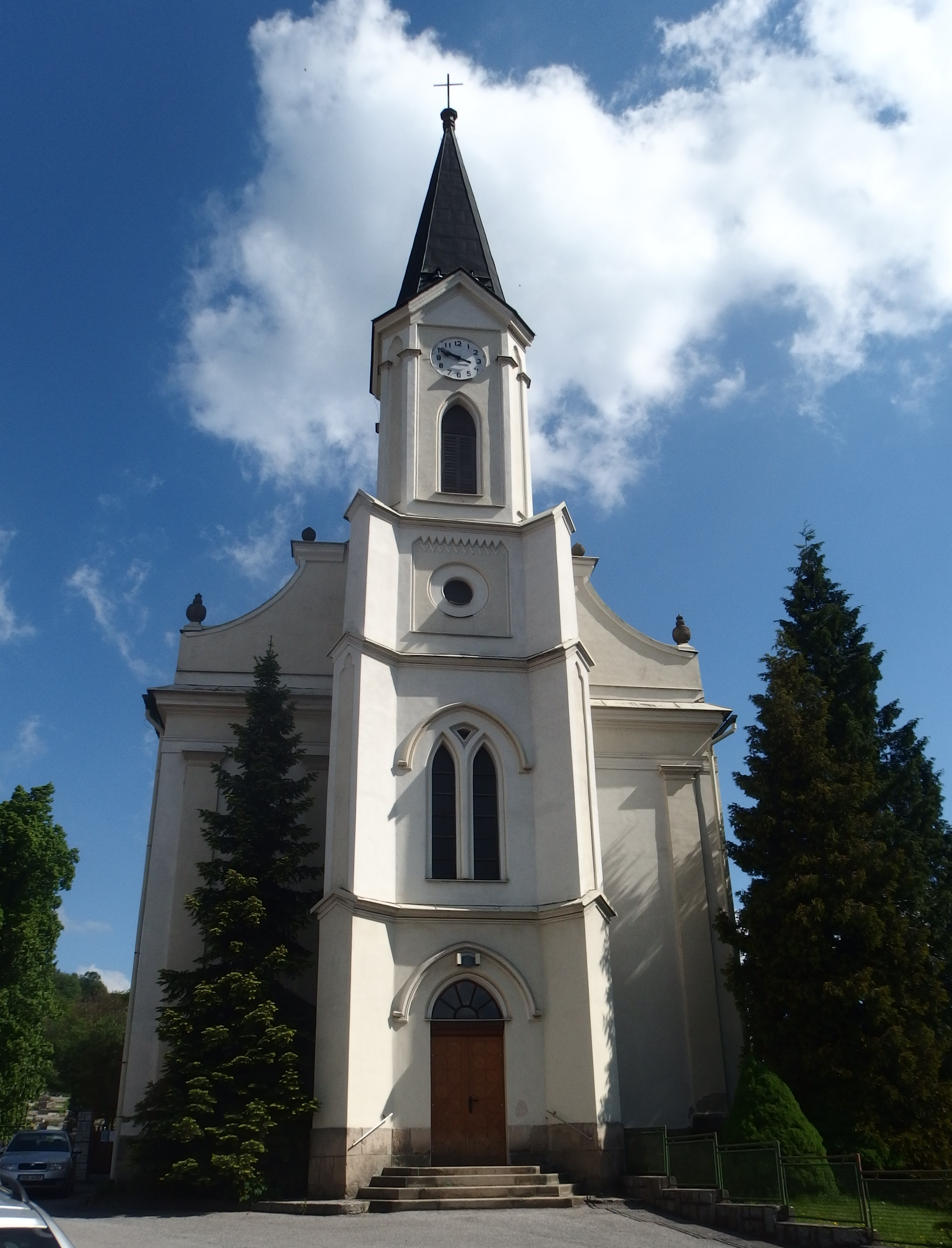 Hošťálková, Vsetín District, Czech Republic.